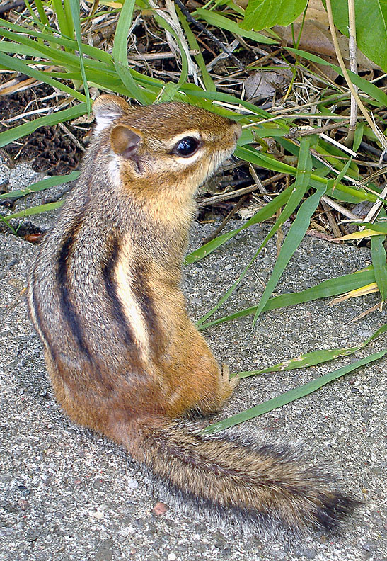 Chipmunk shot in High Park, Toronto, ontario-[foto by paul b. toman]